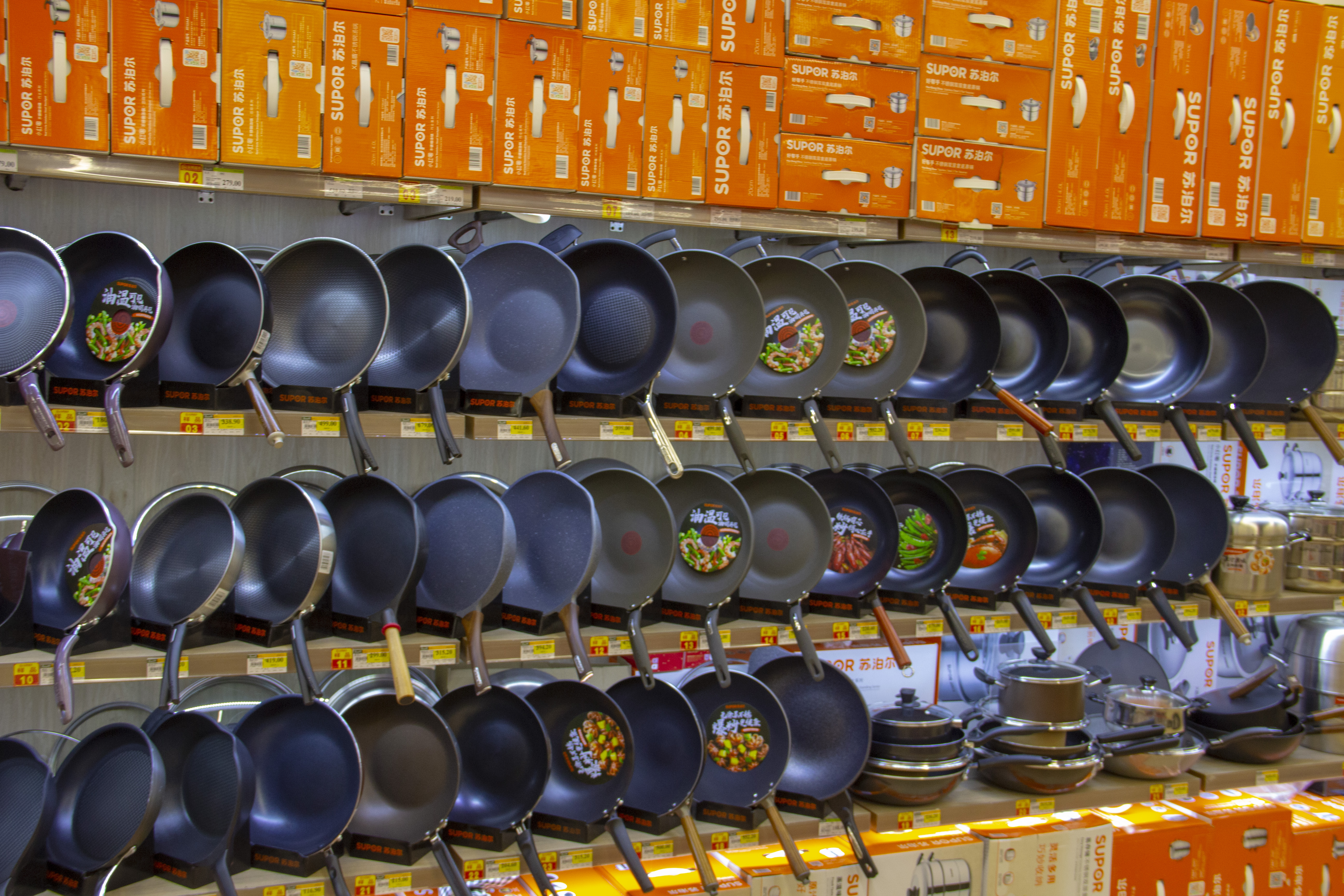 pans on a shelf